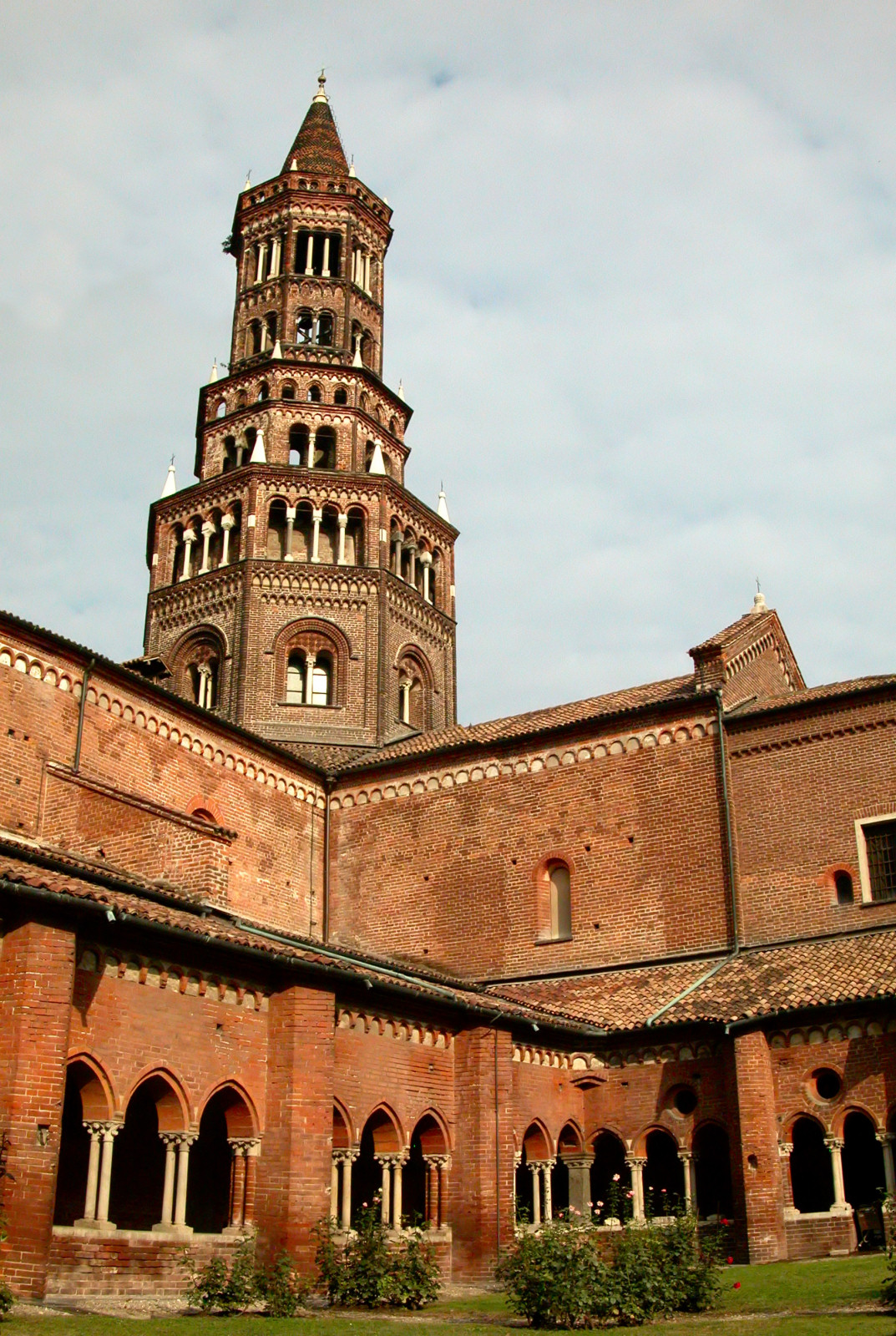 The bell tower of "Chiaravalle" abbey near Milan (Italy), as seen from the cloister. It was completed in 1349, and it is given to architect Francesco Pecorari.